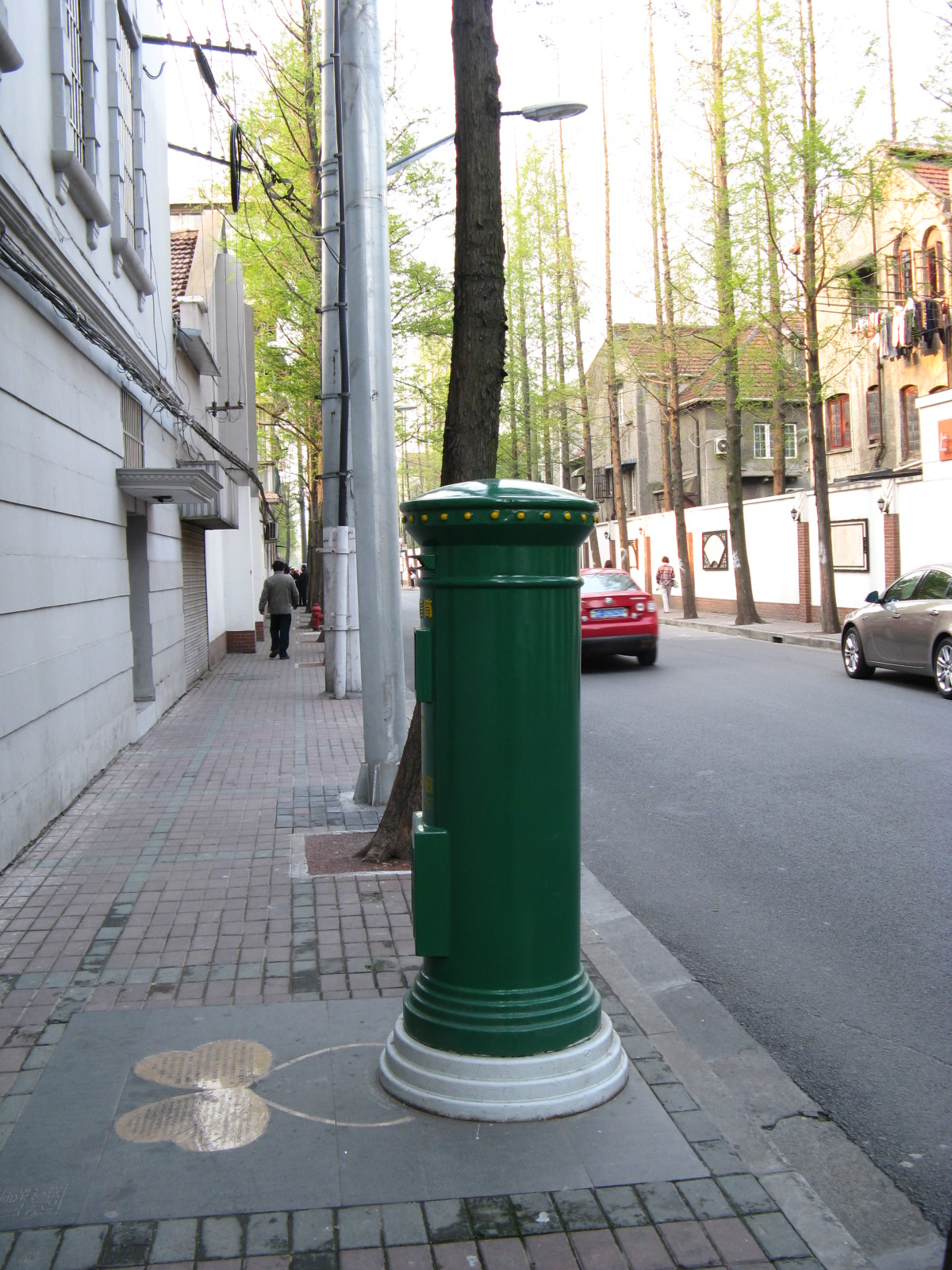 Love Mailbox on the Tian'ai Road's side,Shanghai,PRC